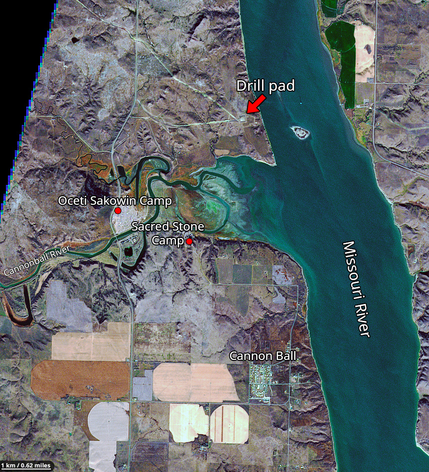 SSC_DAPL_S2A_432_crop_10_annotated